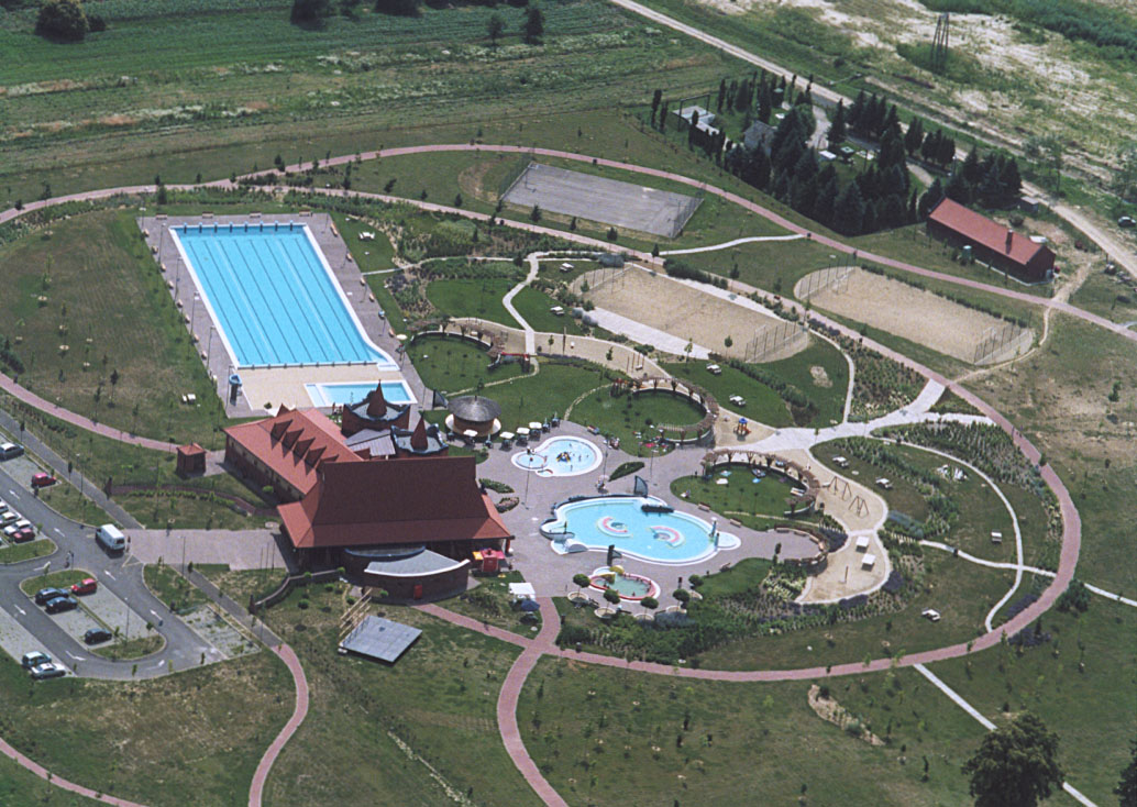 Maracali, Hunary, aerial photogrpahy